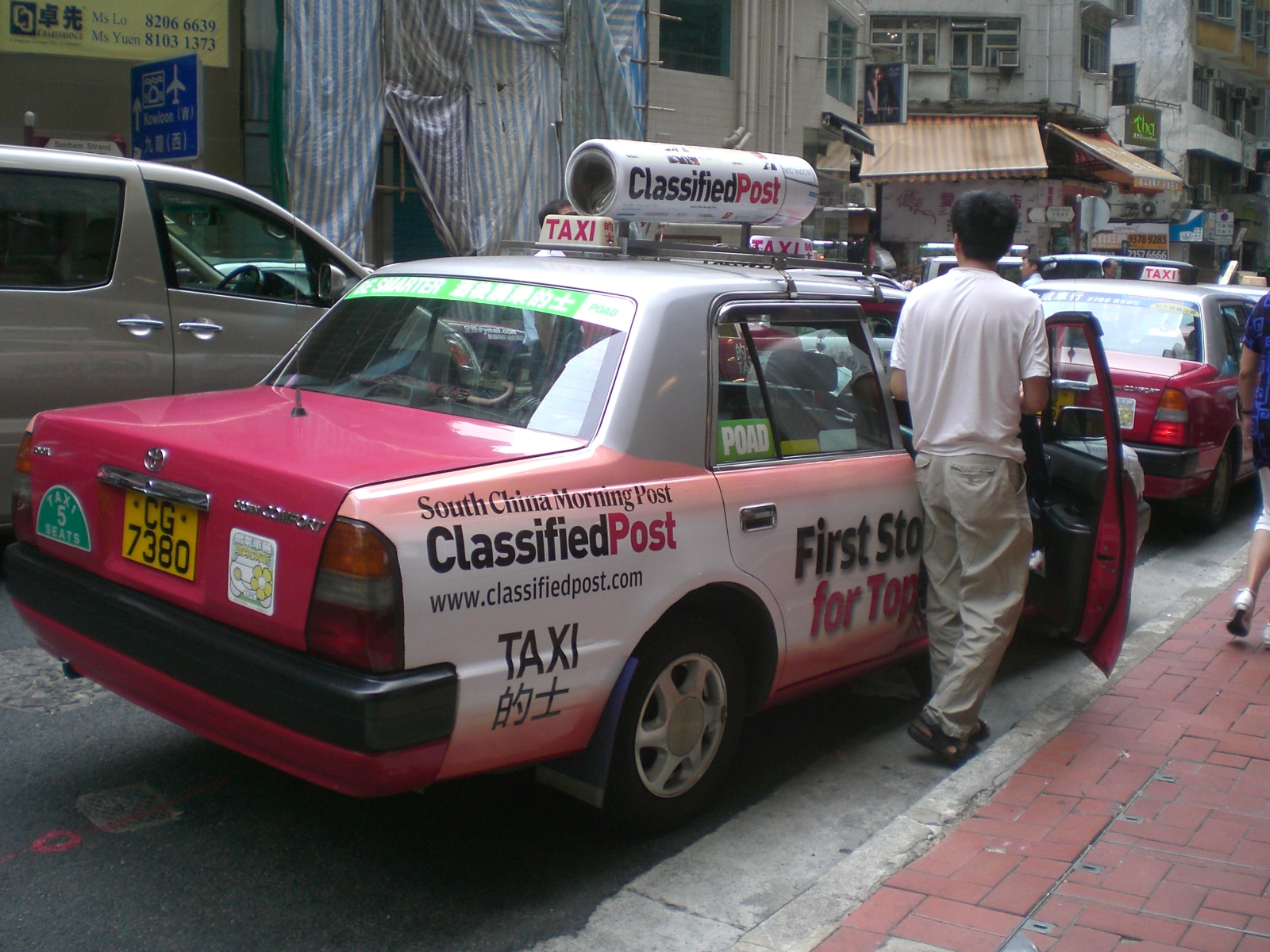 的士司機和南華早報